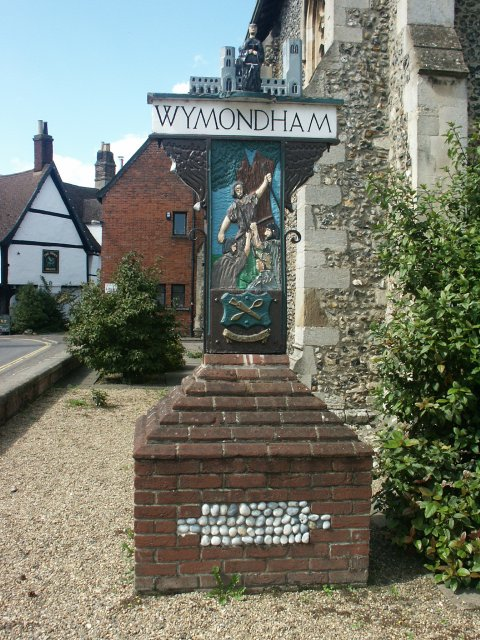 Town sign, Wymondham. The crossed spigot and spoon represent the town's history in the wood-turning industry. The abbey is depicted on the top, and the central panel appears to show Kett's Rebellion. Robert Kett's brother William was hanged from Wymondham Abbey's west tower.